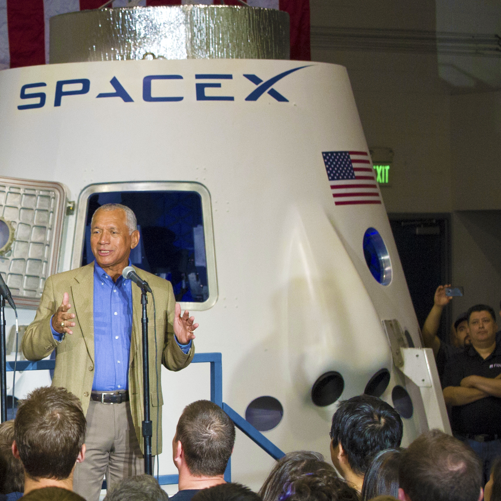 A glimpse at a mockup of DragonRider